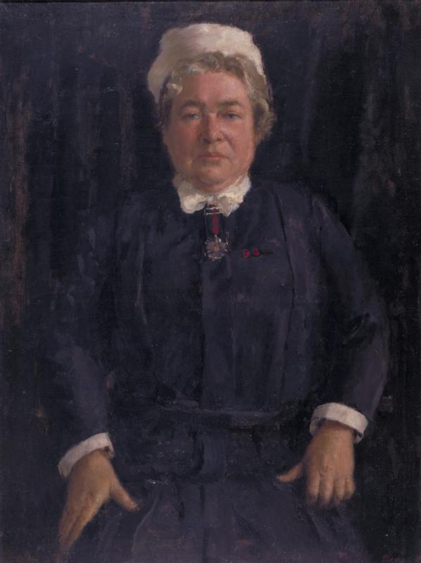 Miss M S Cochrane, Rrc, Srn, Matron, Charing Cross Hospital image: Three-quarter length portrait of Cochrane in uniform